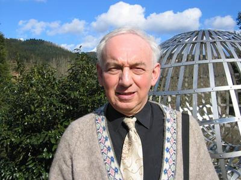 Ivor Grattan-Guinness, Oberwolfach 2006